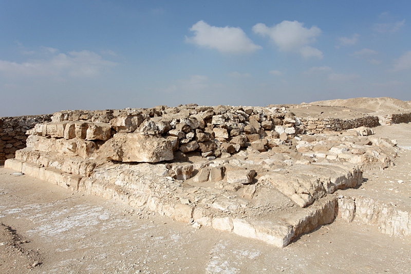 North-east corner of the Queens or Cult Pyramid, Djedefre pyramid, Abu Rawash, Egypt